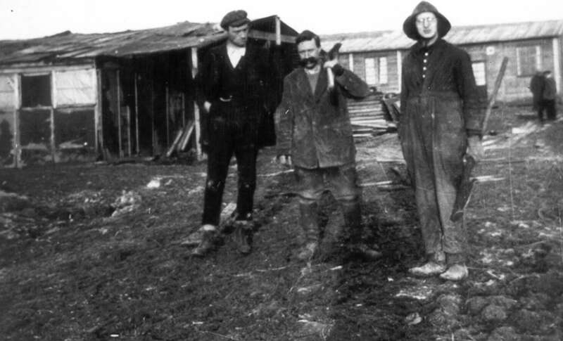 First SCI workcamp in Esnes near Verdun. Building accommodation for the war damaged village (1920/21). Pierre Ceresole stands left.